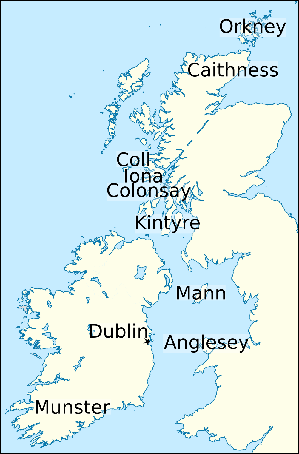 Map of places mentioned in the the Wikipedia article concerning Gilli, Earl in the Hebrides.